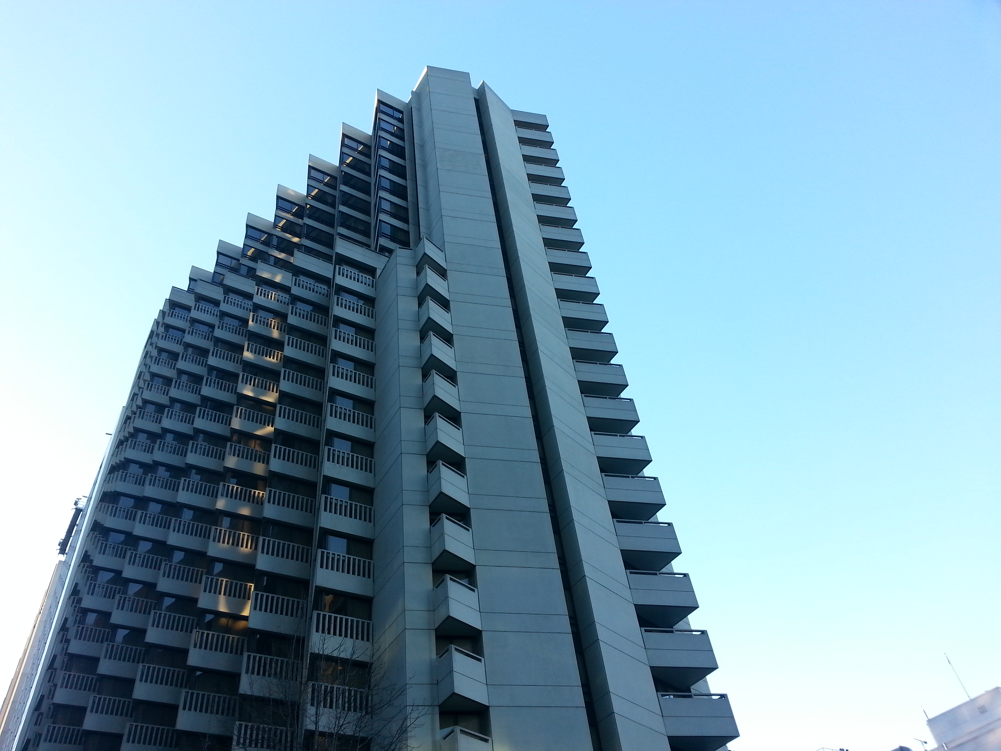 Le Méridien Hotel, Financial District, San Francisco.